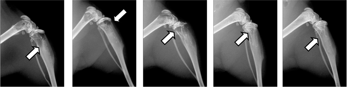 Representative x-ray images from hindlimbs of mice 4 weeks post inoculation with MDA-MB-231 parental, shNT and shHIF cells. Arrows indicate osteolytic lesions.